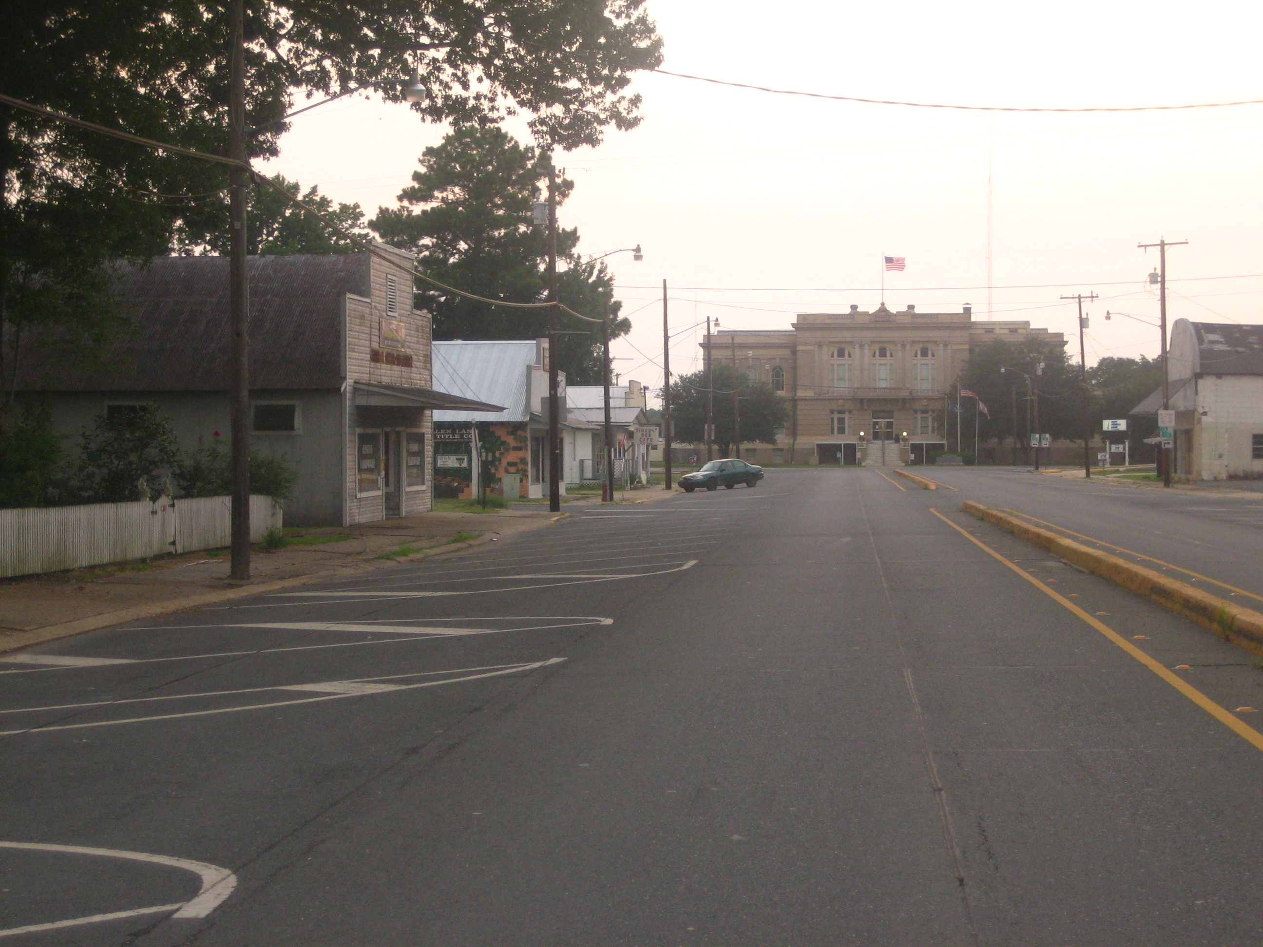 I took photo on July 31, 2008.Billy Hathorn (talk) 01:52, 7 September 2008 (UTC)